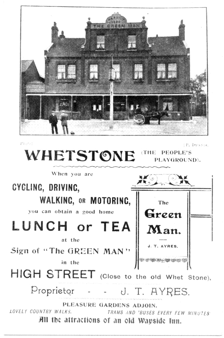 Advertising for The Green Man, Whetstone.